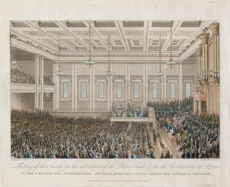 Meeting at Exeter Hall, London, of the Meeting of the Society for the Extinction of the Slave Trade, & for the Civilization of Africa, on 1 June 1840.